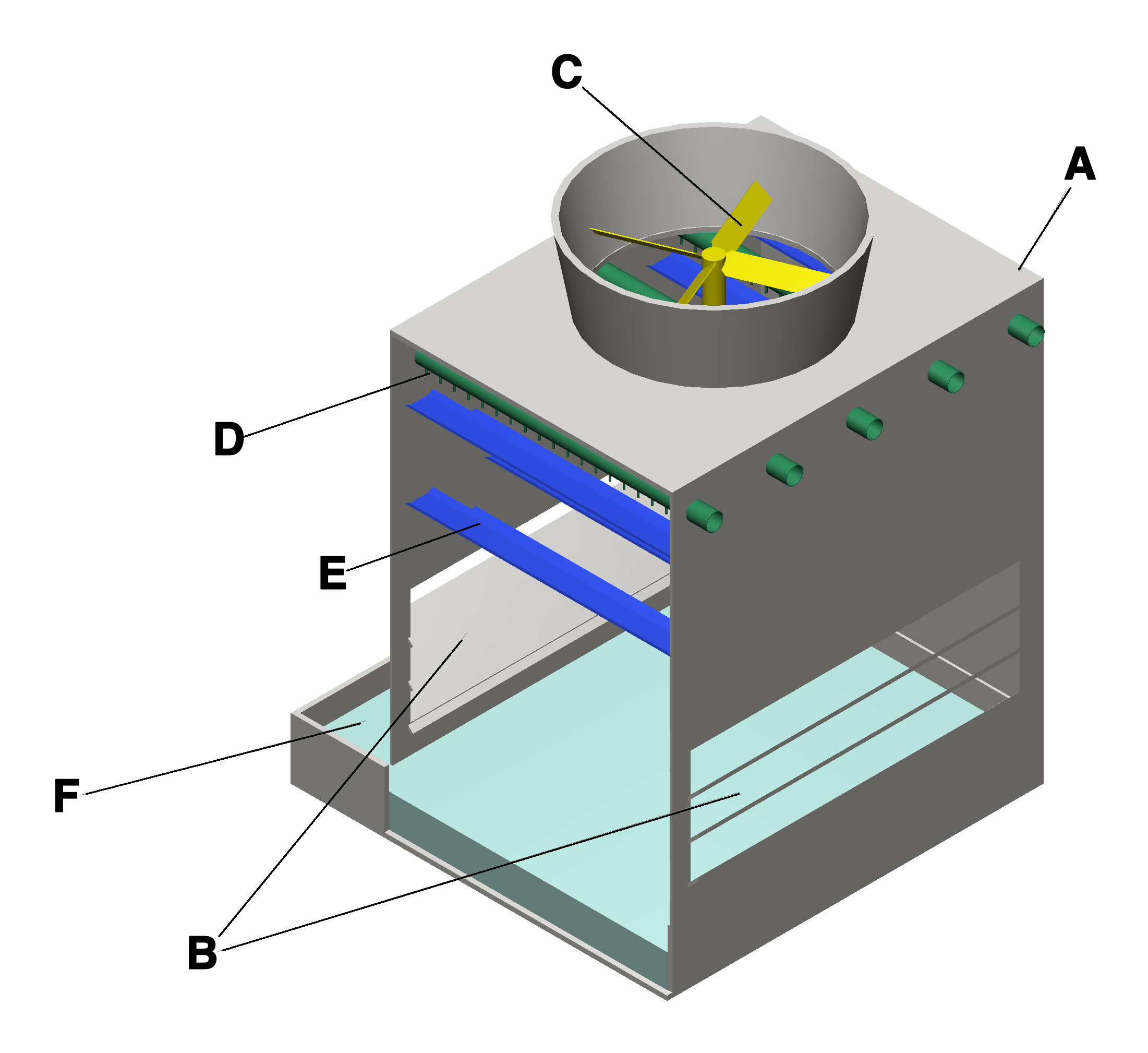 Schematic of an evaporative cooling tower